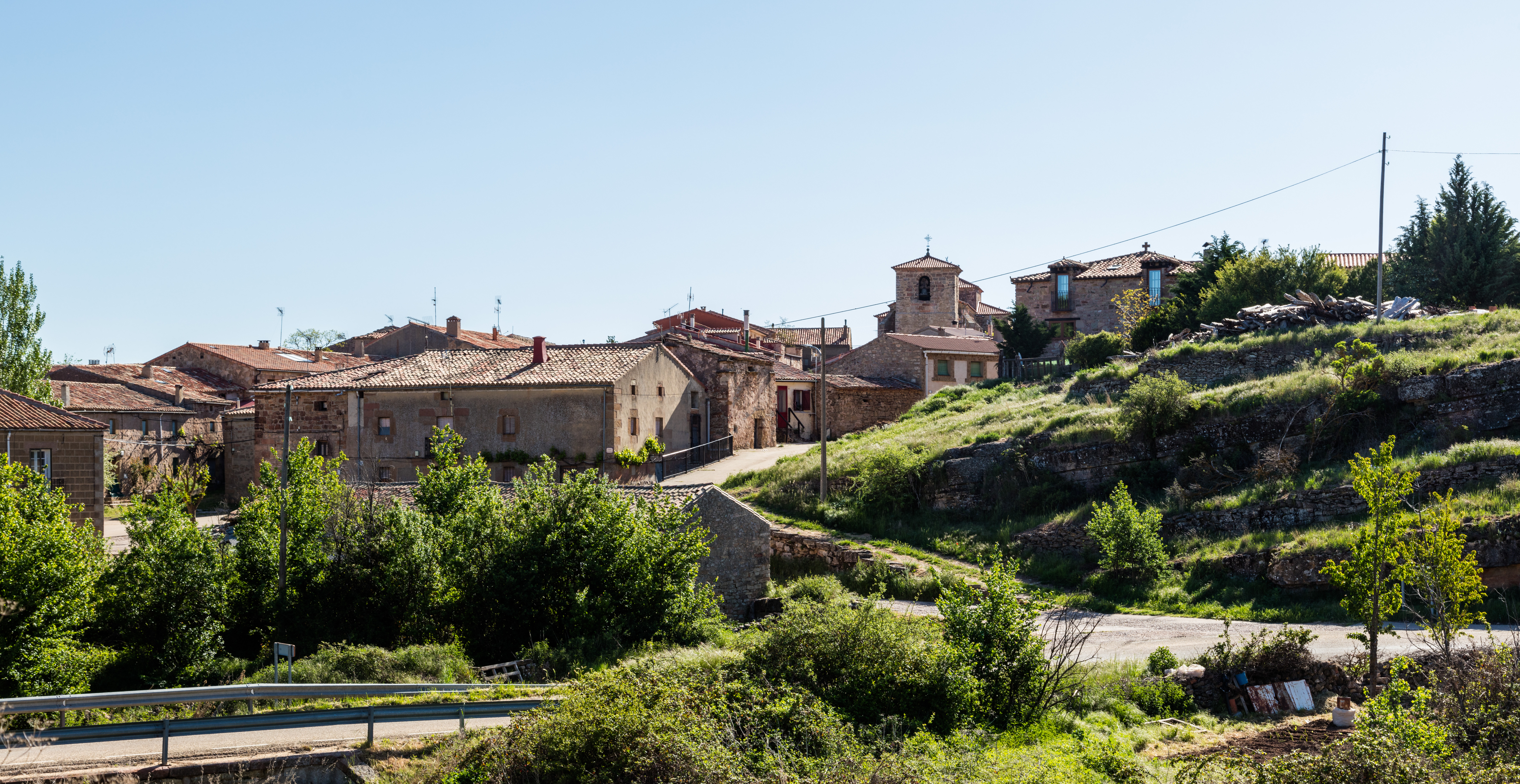 Yelo, Soria, Spain